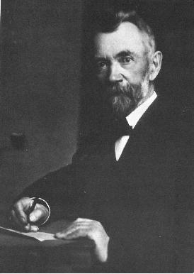 Circa 1905 portrait of Robert A. Holekamp of Webster Groves, Missouri